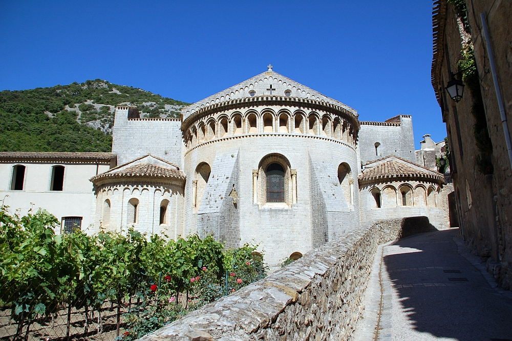 Saint-Guilhem-le-Désert (Hérault), Languedoc-Roussillon, France